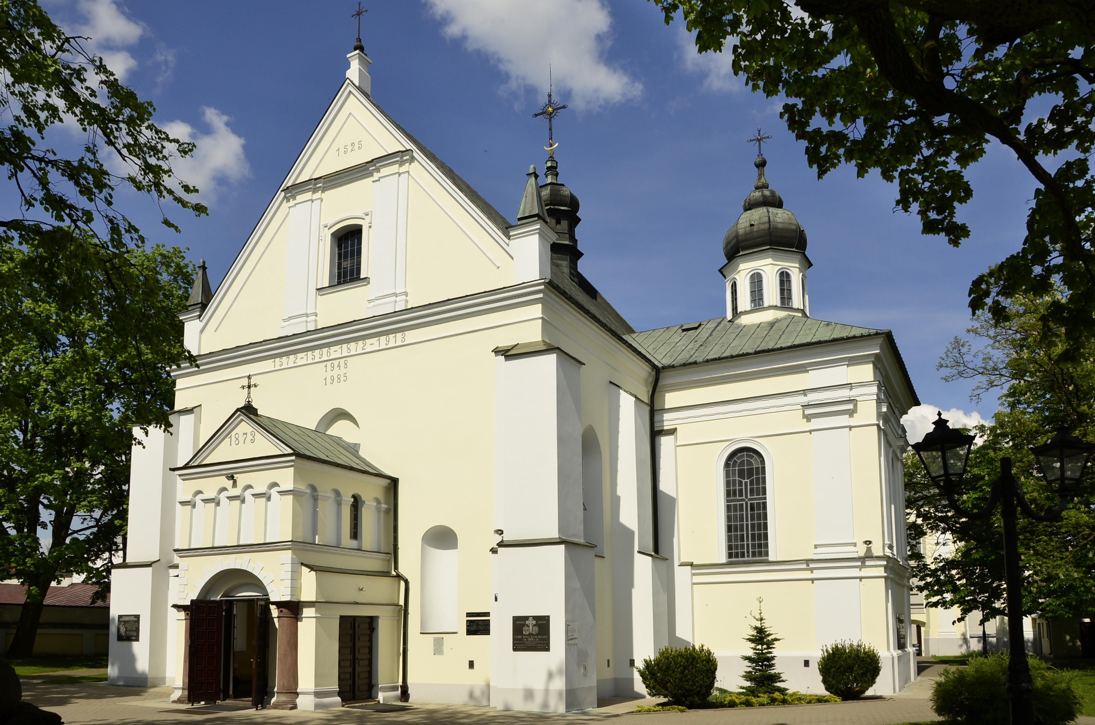 Biała Podlaska, the historic St. Anne's Church, built in 1572